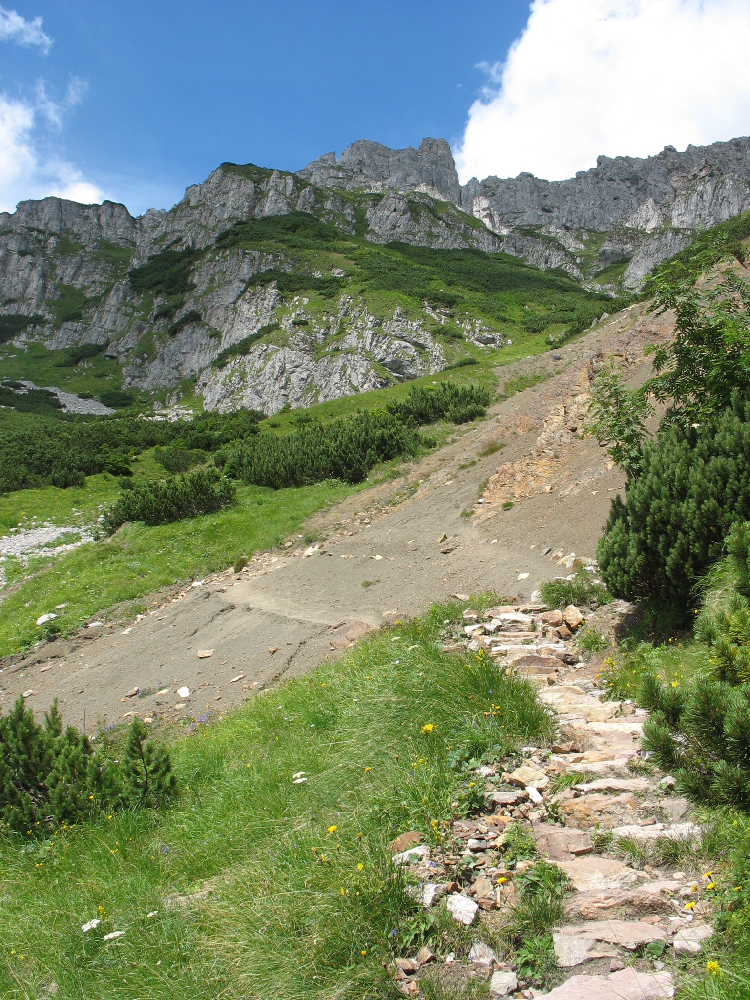 Tatra Mountains